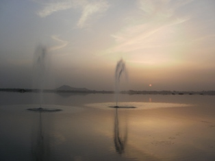 View of Dal Lake from Nishat Garden Side-Srinagar-India